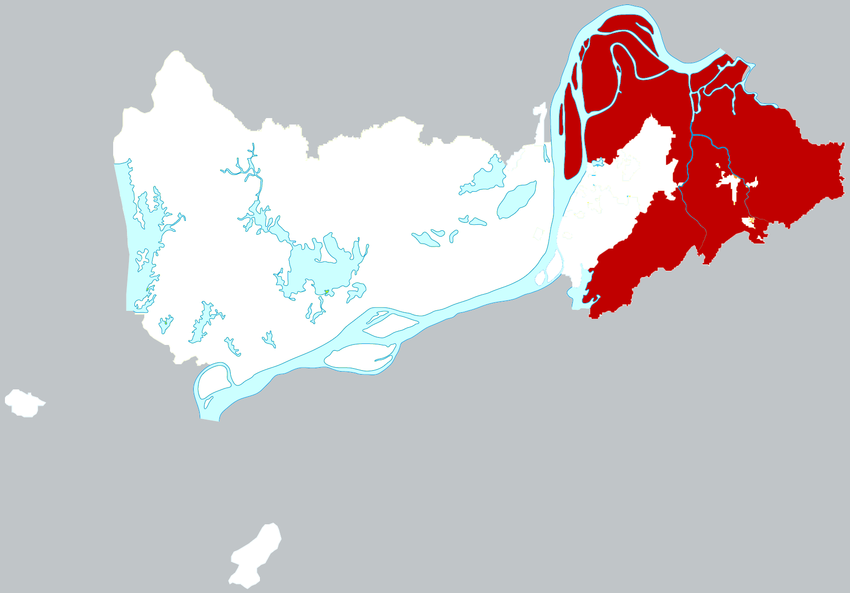 Location of Yian district in Tongling city, China